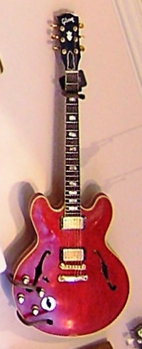 Gibson ES-345 left handed model Note: Gibson ES-355 with SV options (“Stereo Output” & “Variable Tone”) seems to be almost same as ES-345, except for: headstock inlay (split-diamond on ES-355, small crown on ES-345) 1st fret block marker (on ES-355, although sometime exists on ES-345) output jack position (front on ES-355, side on ES-345). factory installed vibrato unit (on ES-355, Vibrola or Bigsby)